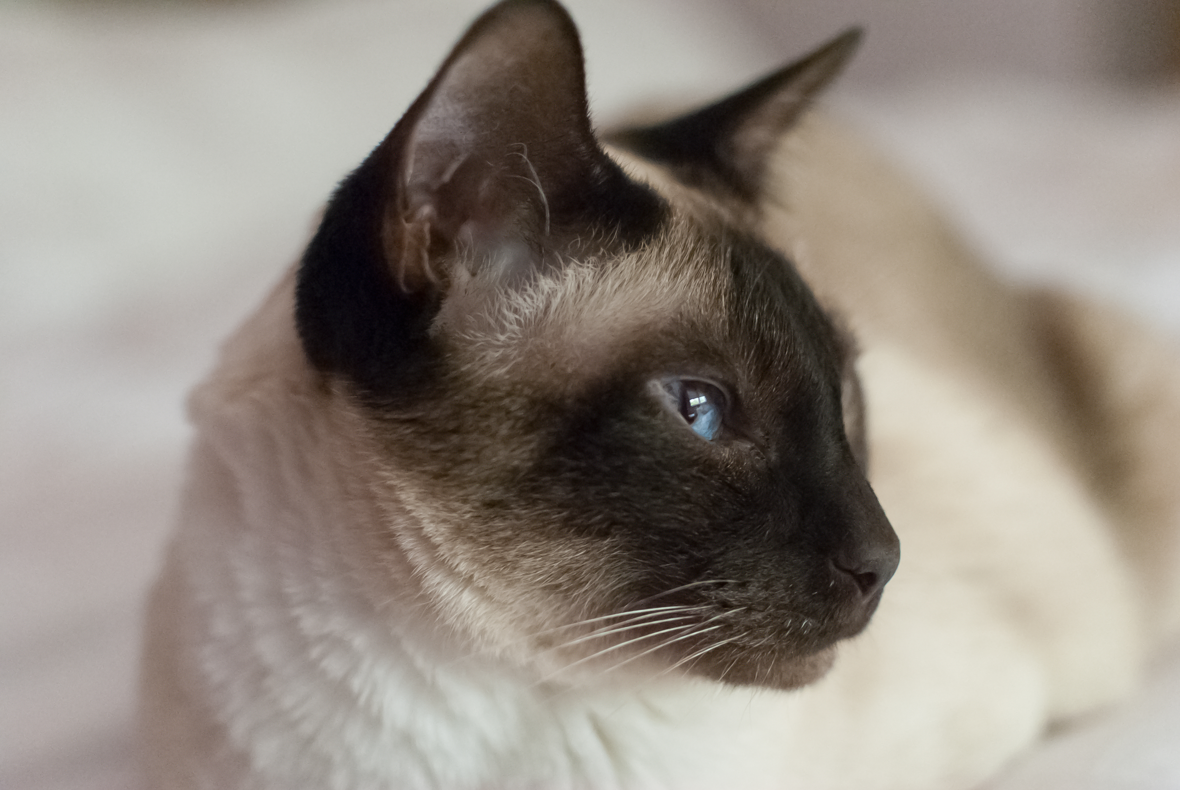 Chocolate-point Siamese cat